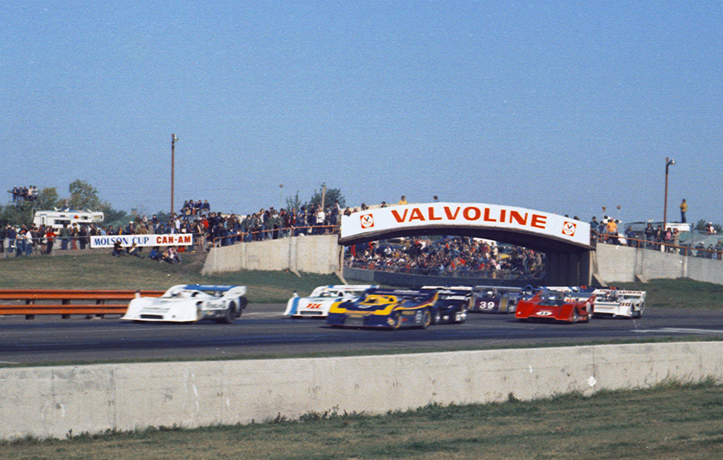 Can-Am race at Edmonton International Speedway 1973. Fred Young